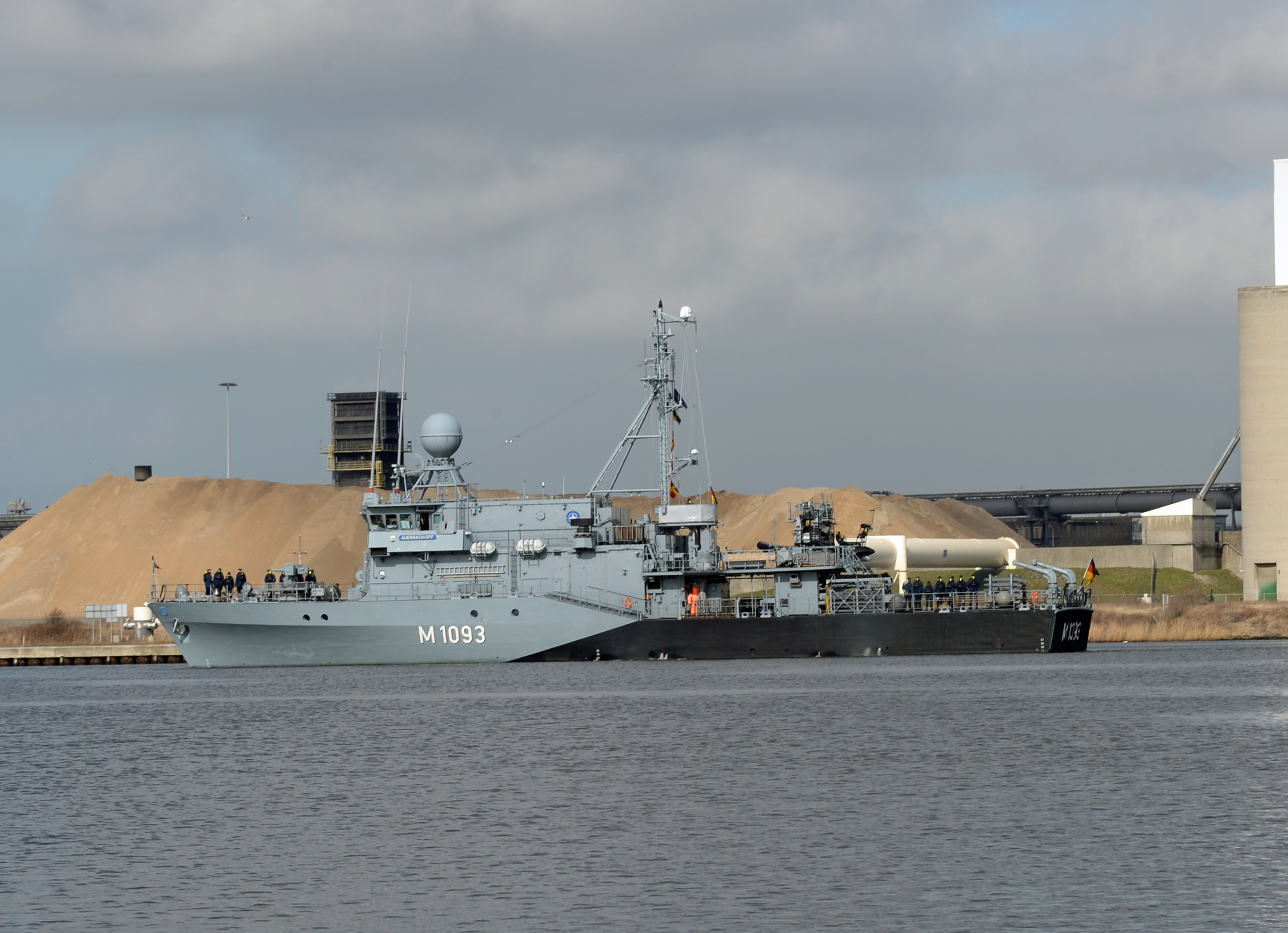 German Navy M1093, Auerbach Ensdorf Class (Type 352) minesweeper on the Noordzeekanaal at IJmuiden.